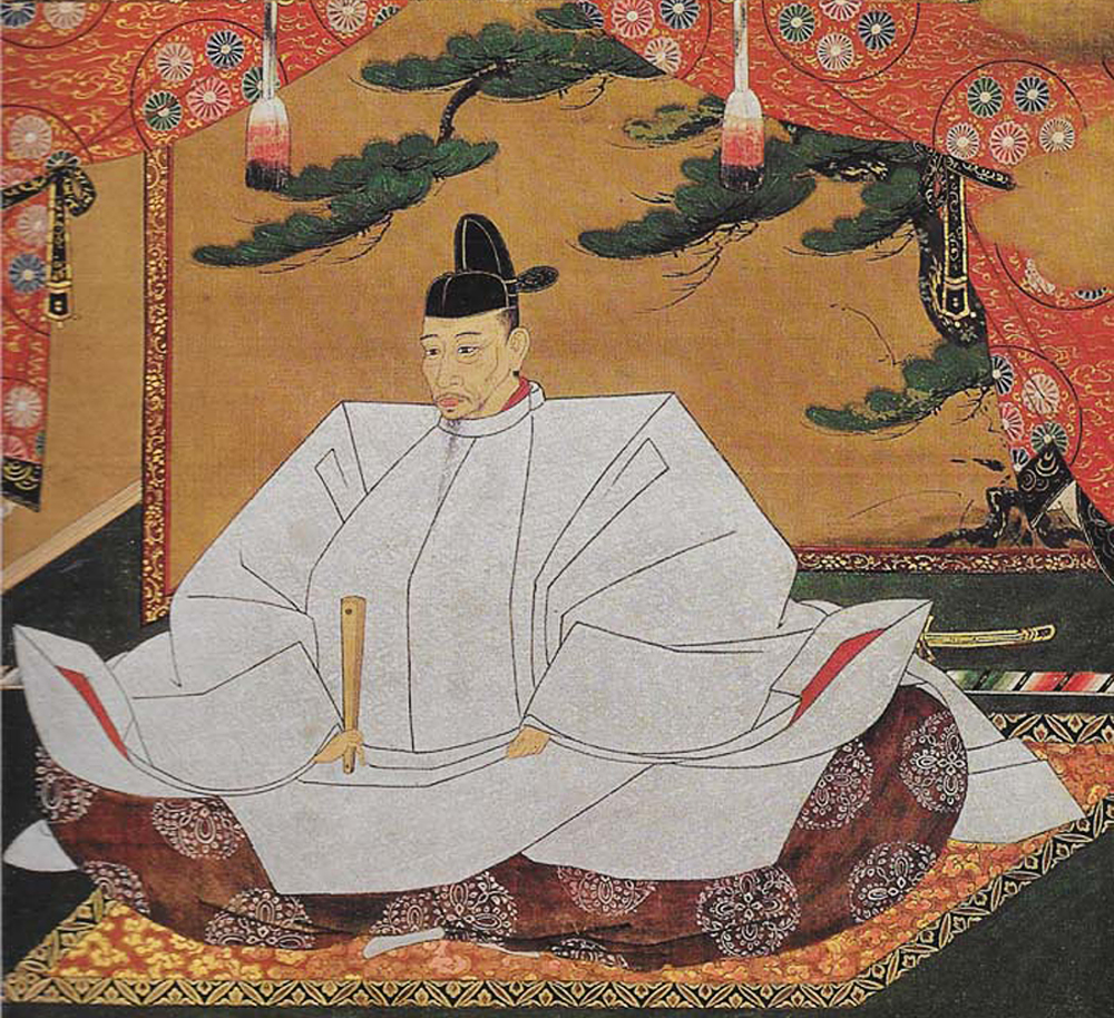 Portrait of Toyotomi Hideyoshi, part of (Kodaiji holdings)